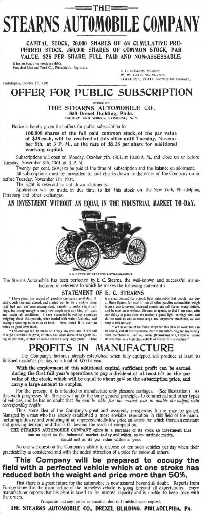 Stearns Automobile Company of Syracuse, New York - Public offering - New York Times, October 6, 1901